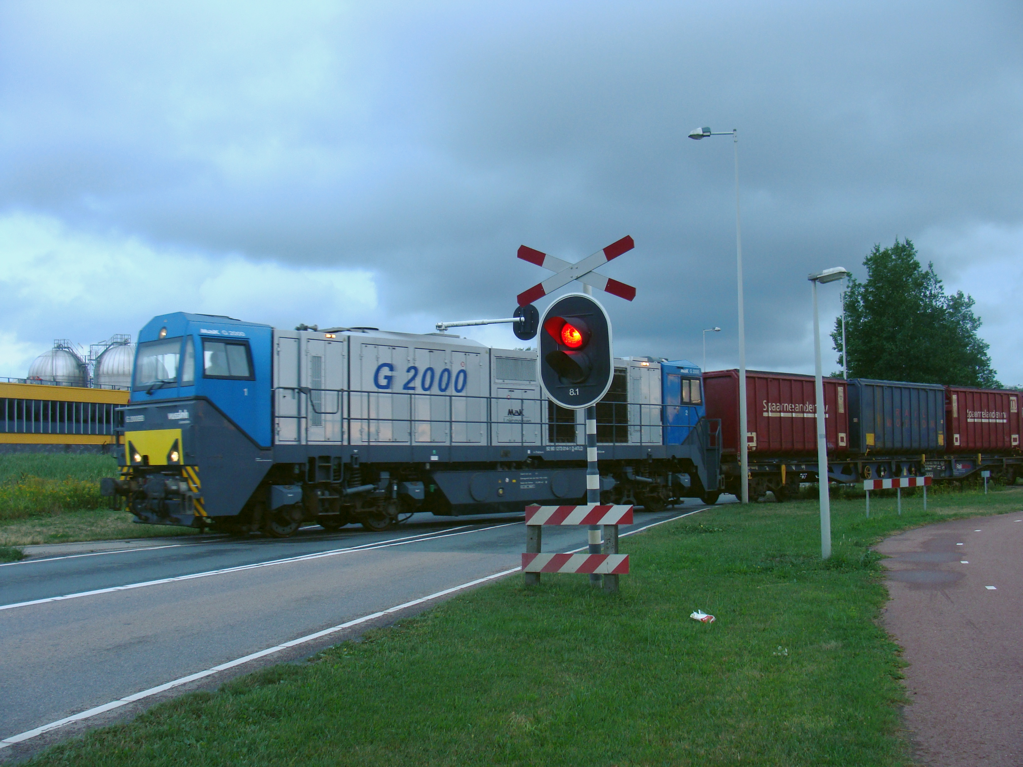 HALI level crossing (half-automatic traffic lights installation) in the Port of Amsterdam, with an empty garbage train hauled by a Vossloh G 2000 diesel locomotive.